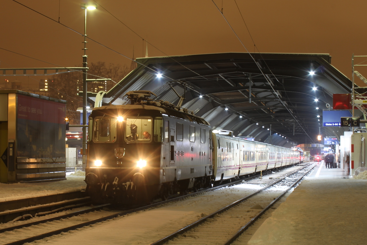 Last EuroNight 274 "Pau Casals" from Zürich to Barcelona ready to leave Zürich main station pulled by SBB CFF FFS Re 4/4 II 11161.